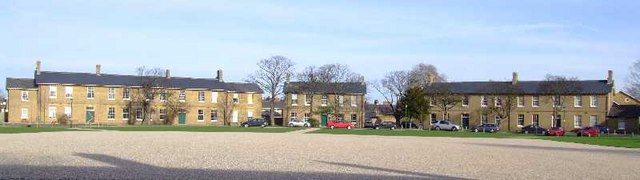 Horseshoe Crescent Well known area of Shoebury Garrison